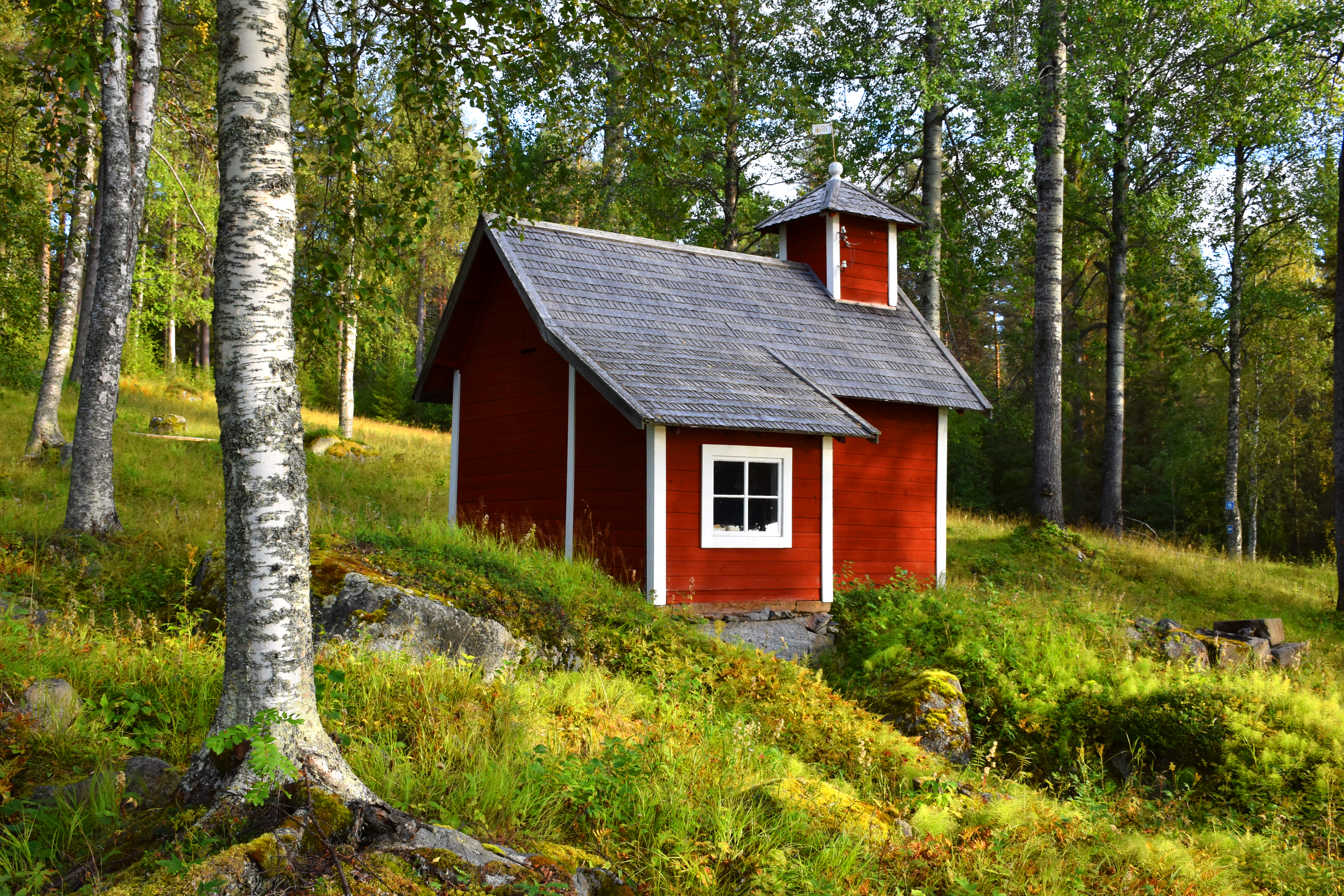 The small hydropower plant at Torvsjö Mills, built in 1918 to provide electricity for the inhabitants of Torvsjö, was in operation until 1948. It is one of several water-powered plants and mills at Torvsjö Mills in Åsele Municipality, Sweden, which also includes a sawmill, watermills, forge and threshing machine.